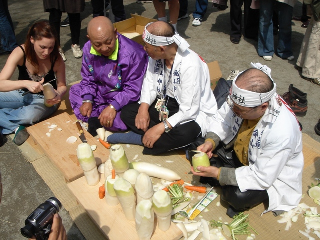 Making phallus (and some cases pussy) sculptures from Japanese radish. Those sculptures are for the tribute to the Kanamara-sama (Iron Big Penis Load), and later they are sold by auction, Kawasaki, Events and festivals.